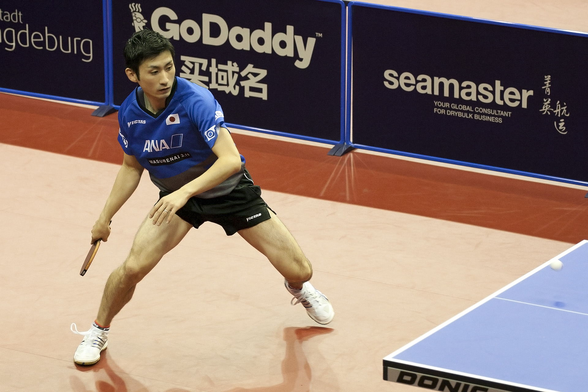 ITTF World Tour 2017 German Open, Magdeburg, Germany, 7 Nov 2017 - 12 Nov 2017, Ueda Jin